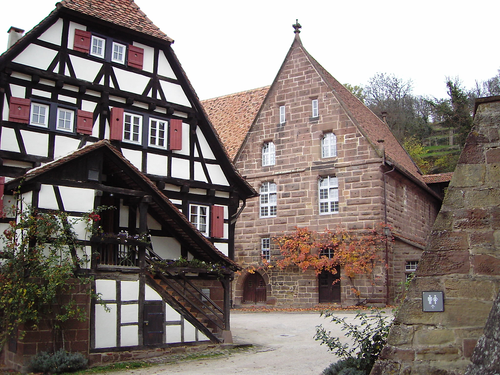 Maulbronn Monastery - Bakery; left: Klosterhof 28